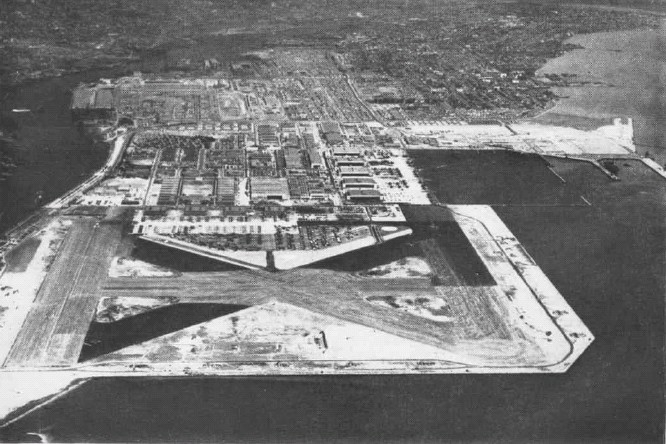 The Naval Air Station Alameda, California, USA, about 1946-1947.